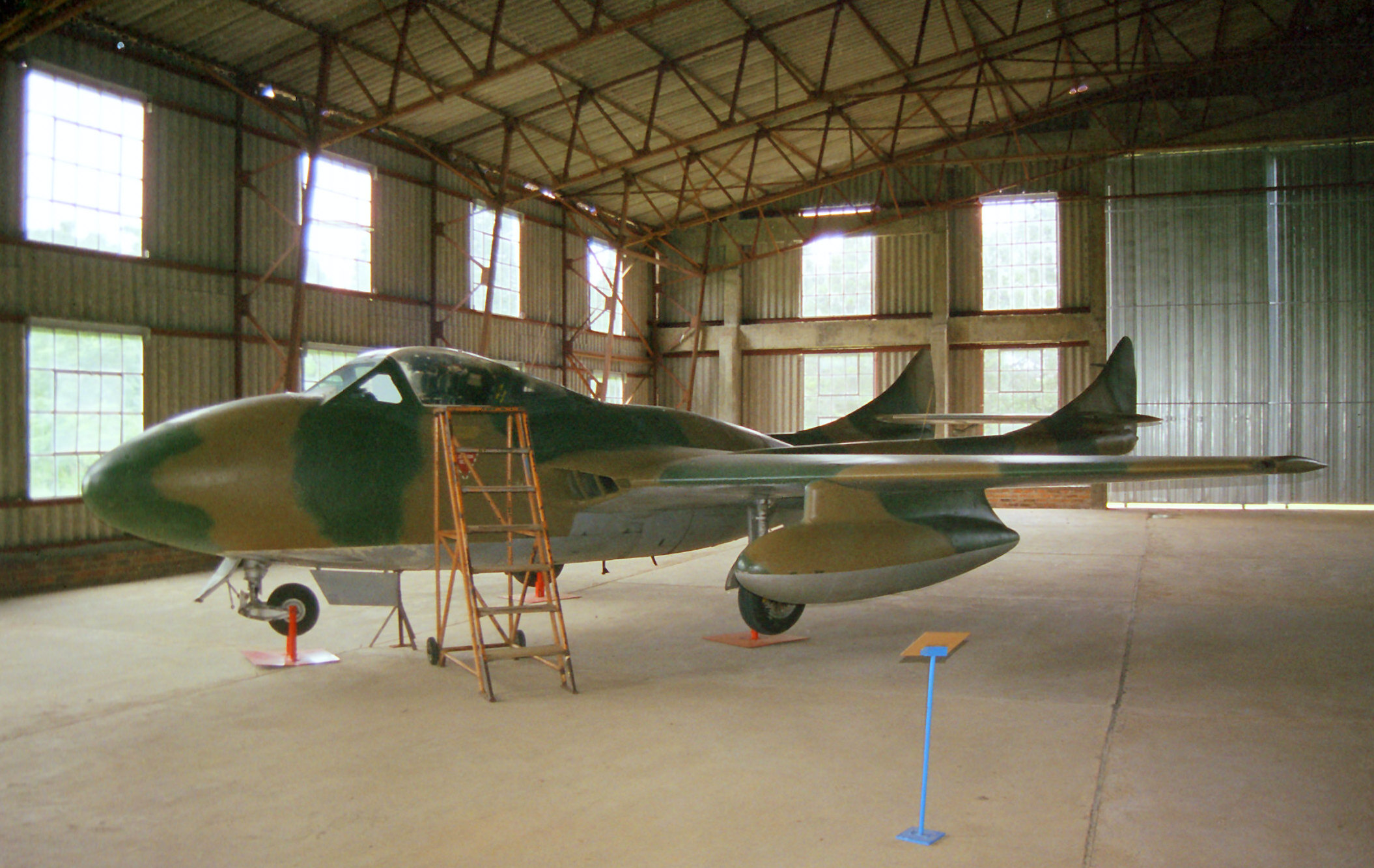 '4220' DH.115 Vampire T.11 [2406] at the Zimbabwe Military Museum